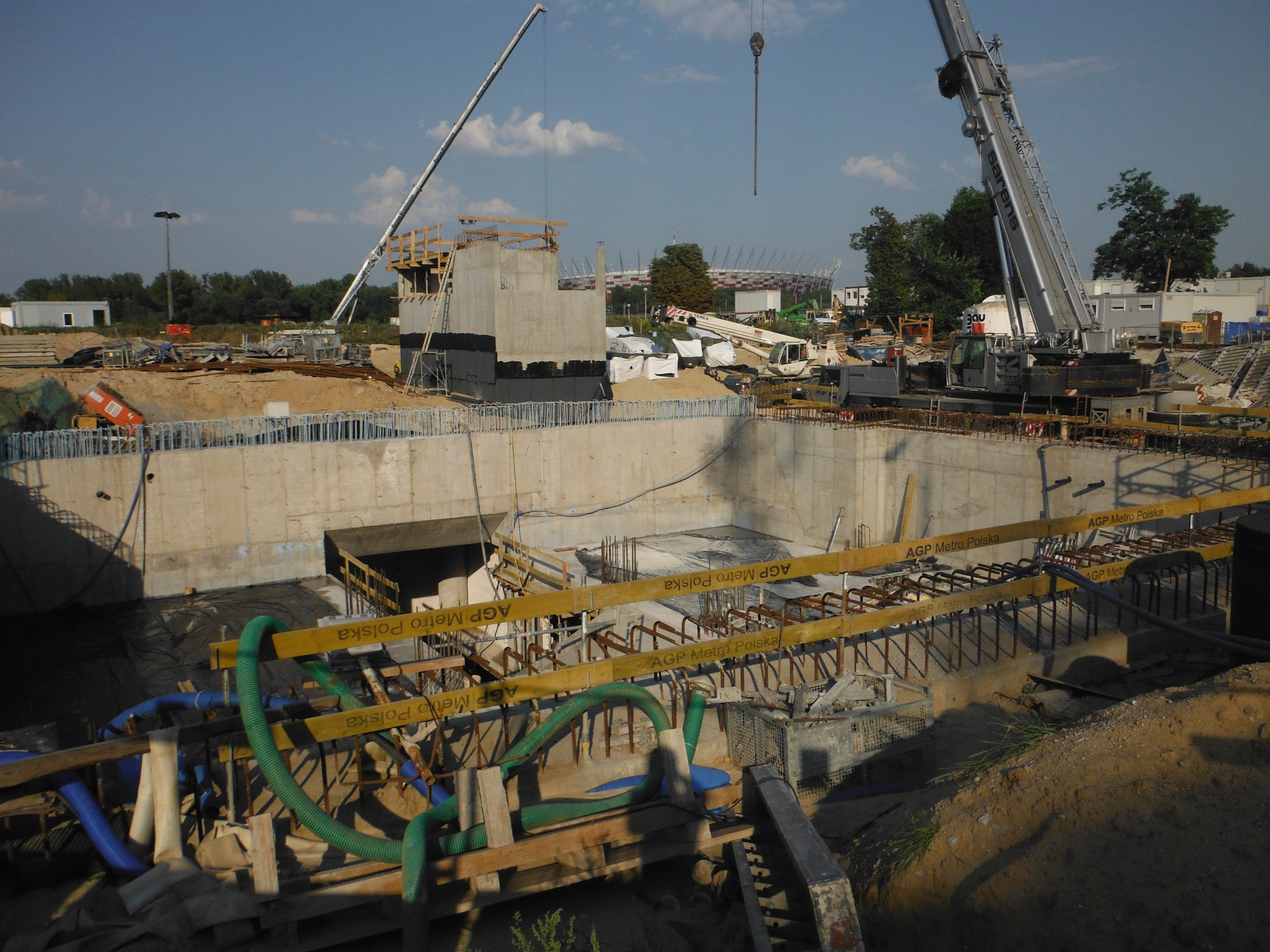 Centrum Nauki Kopernik metro station (under construction) in Warsaw (2nd of August 2014).